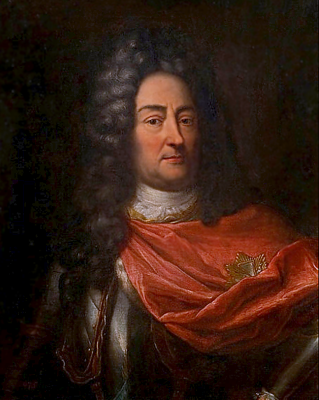 Jan Jerzy Przebendowski